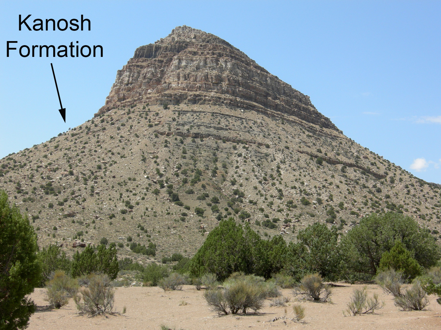 Fossil Mountain, Utah, with Kanosh Formation (Middle Ordovician) labeled.